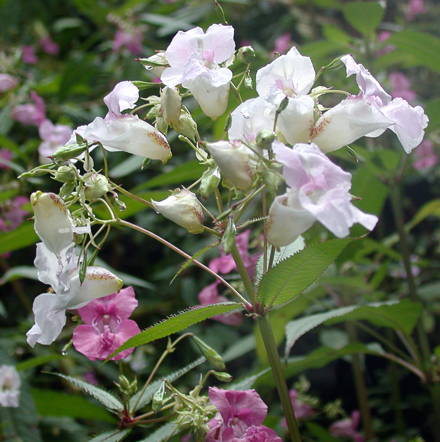 Himalayan Balsam (Impatiens glandulifera Royle) Familia: Balsaminaceae; Genus: Impatiens Photography taken at the Col de la Core near Sentenac d'Oust (Ariège, France) at an altitude of about 700 meters in September 2008.